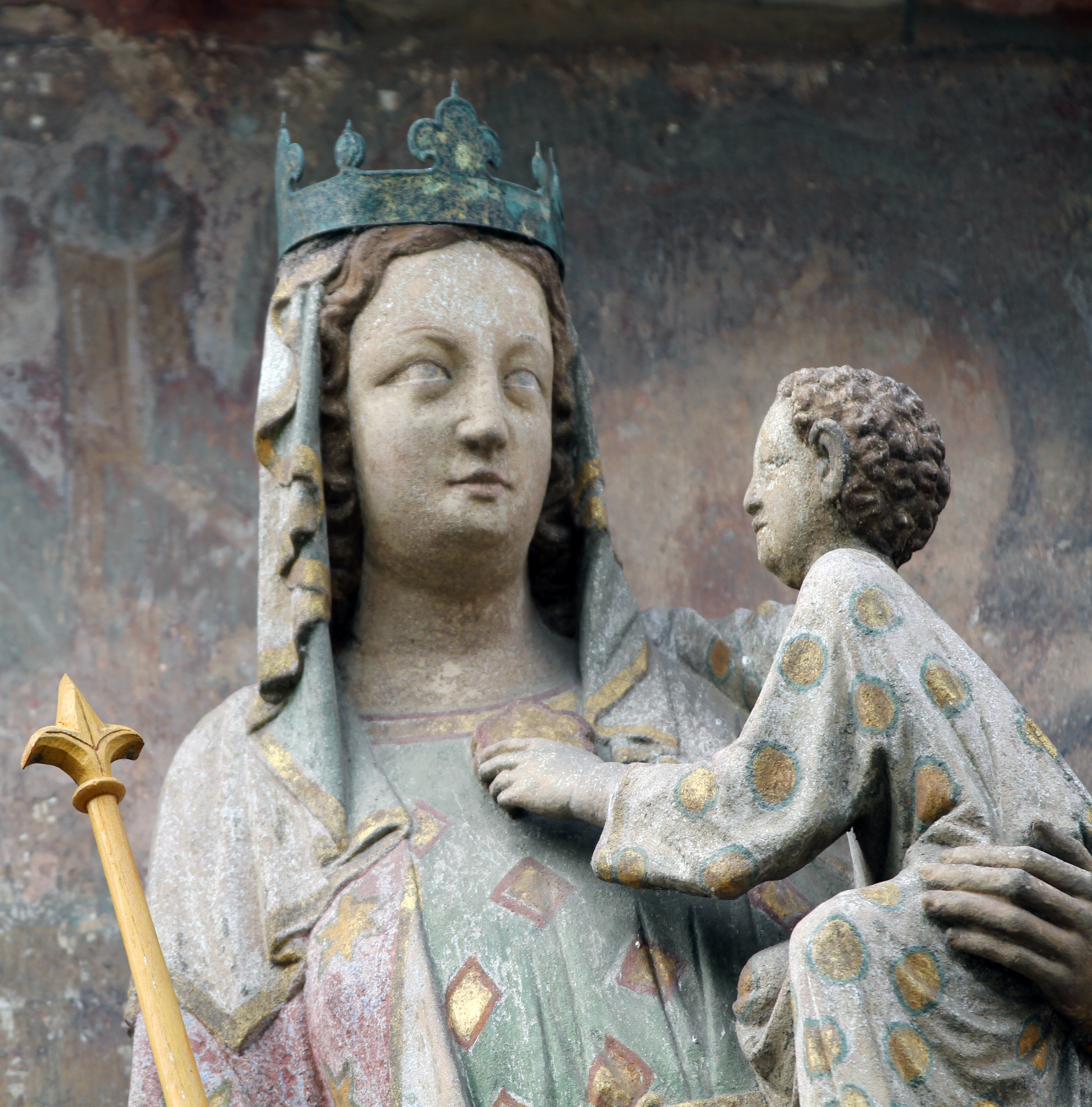 Catholic Parish Church of Our Lady Oberwesel, Germany